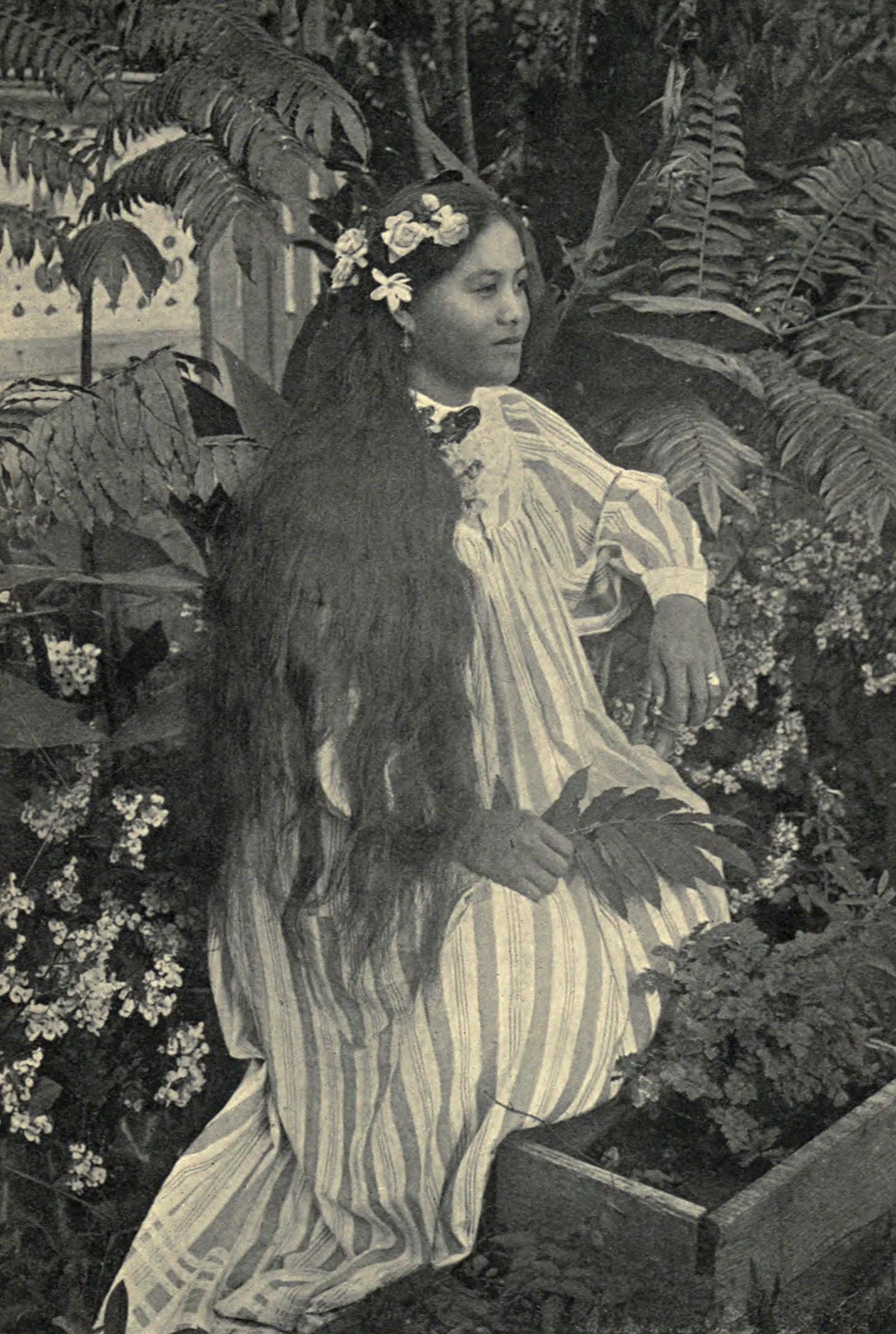 Tepairu, a pure-caste Rarotongan girl.